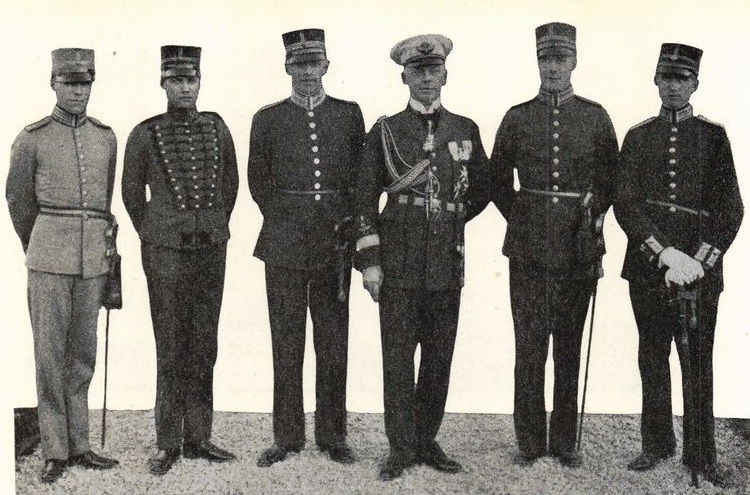 Five Swedish officers, who along with General Eric Virgin found employment in Abyssinia, photographed in Addis Ababa, since they by the General been represented to the Emperor: from left Lieutenant Anders Nyblom, The Fortification, Lieutenant Gustaf (Gösta) Vilhelm Heüman, Göta Artillery Regiment, Captain Viking Tamm, the Svea Life Guards, General Eric Virgin, Lieutenant Nils Erik Bouveng, Norrbotten Regiment, and Lieutenant Arne Thorburn, Bohuslän Regiment.